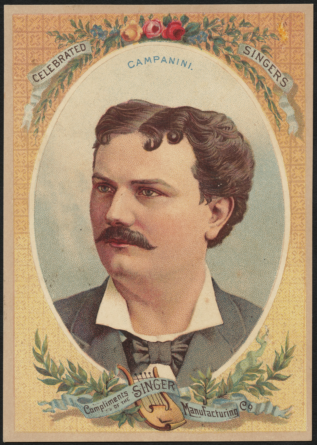 File name: 10_03_001526a Binder label: Sewing Machines Title: Celebrated singers - Campanini - Compliments of the Singer Manufacturing Co. (front) Date issued: 1870-1900 (approximate) Physical description: 1 print : chromolithograph ; 9 x 12 cm. Subject: Men; Sewing machines Notes: Title from item. Statement of responsibility: The Singer Manufacturing Co. Collection: 19th Century American Trade Cards Location: Boston Public Library, Print Department Rights: No known restrictions.